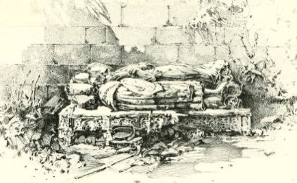 Illustration of the tombs of the 1st Earl and Countess of Morton at the Dalkeith Collegiate Church in Dalkeith, Midlothian, Scotland, UK, from Sir Herbert Mawell's 1902 book, “A History of the House of Douglas”